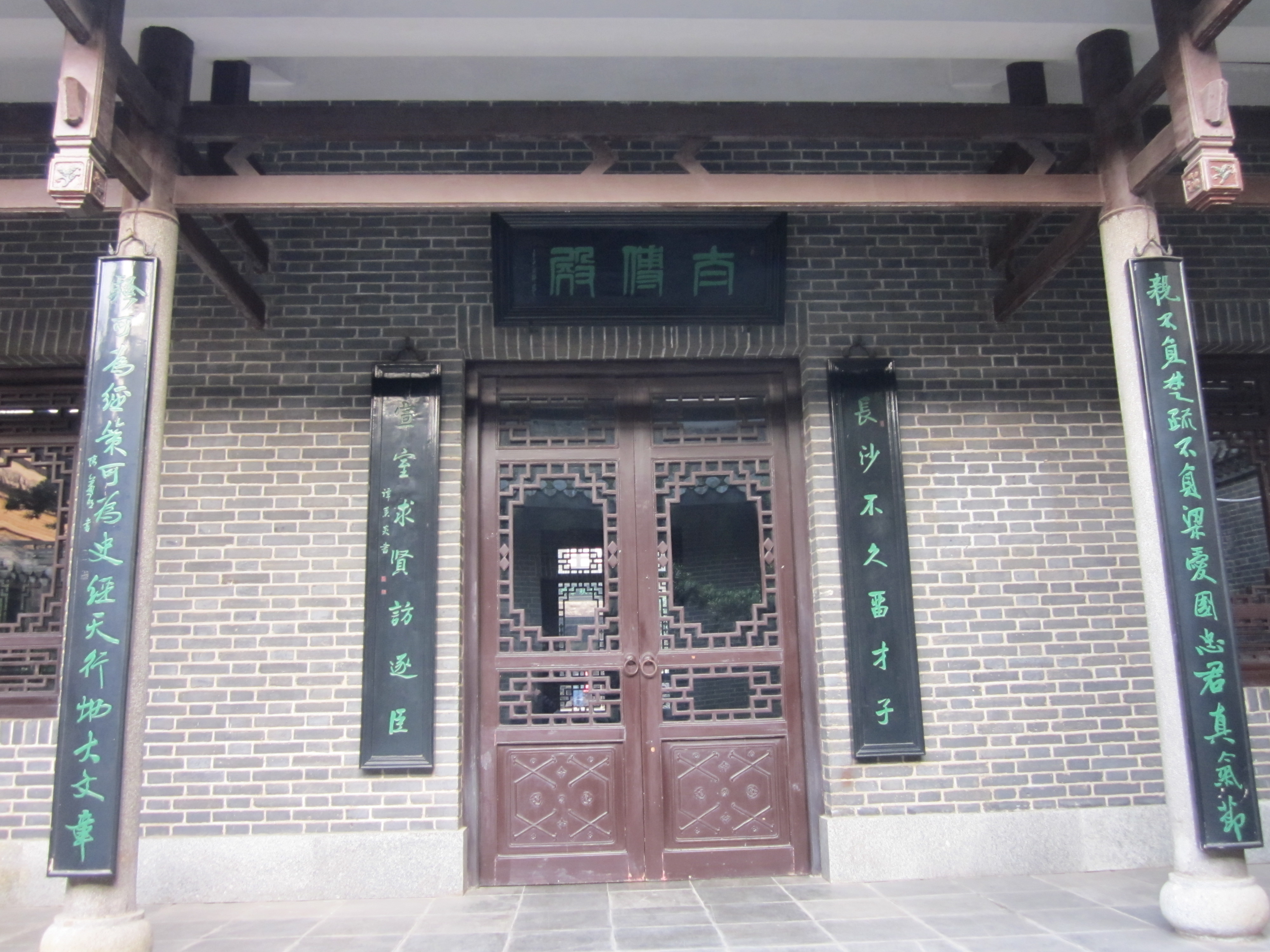 Former residence is located in China jia yi changsha in hunan liberation west road and peace at the street corner, the former residence of hunan province jia yi is protected units of cultural relics.